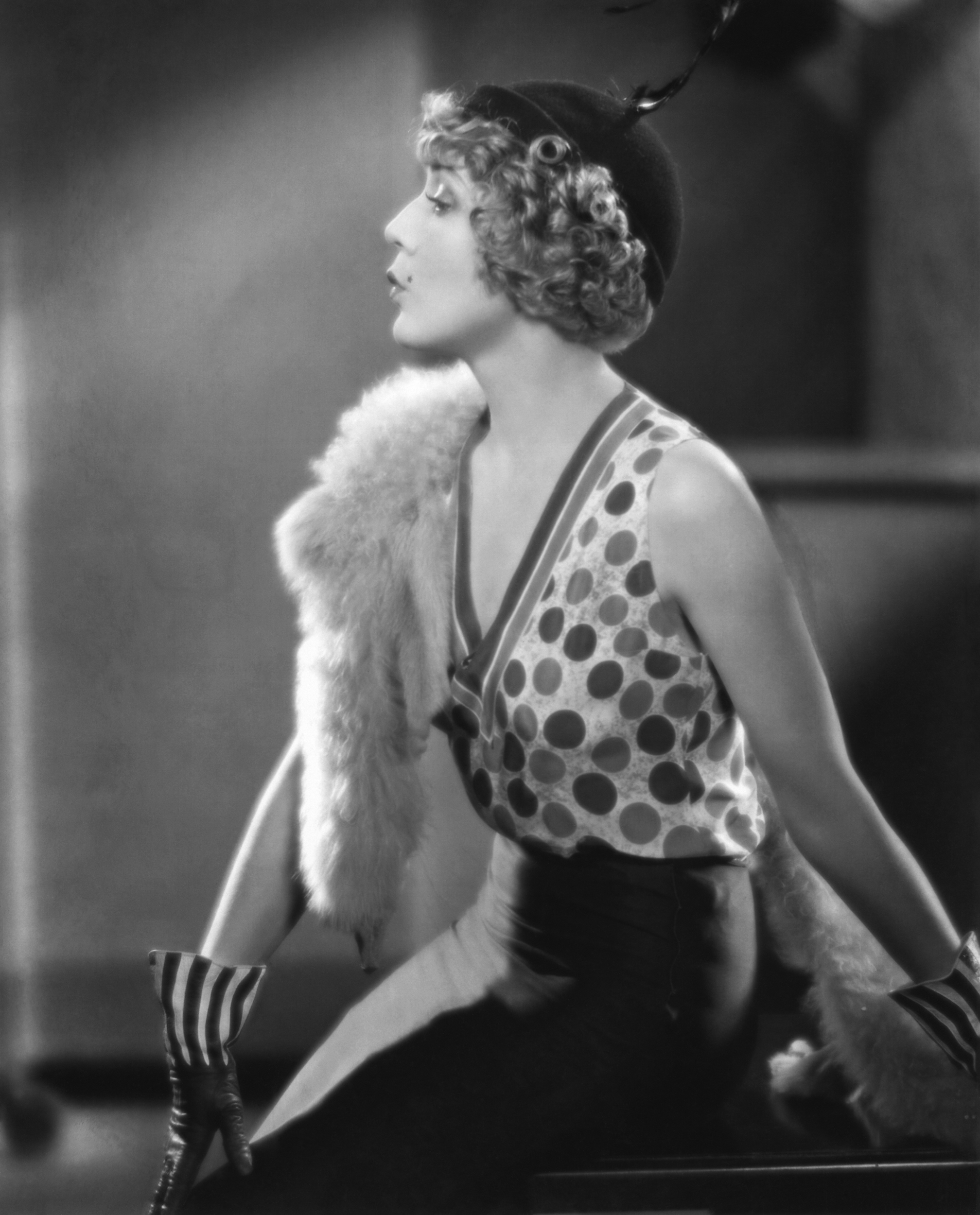 Mary Pickford in the American comedy film Kiki (1931)., a film by Sam Taylor.